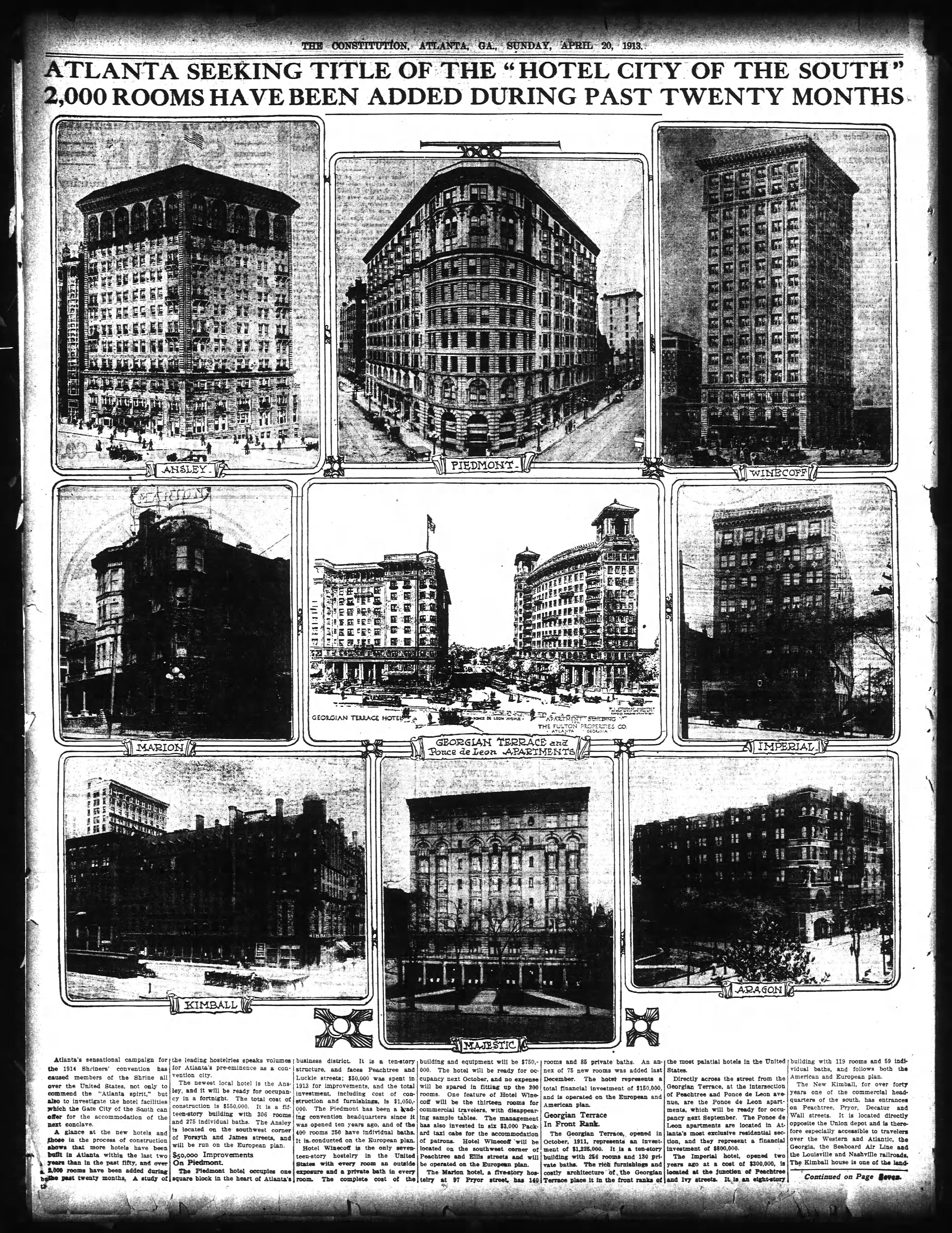 Article from Atlanta Consitution April 20, 1913 about city's new hotels